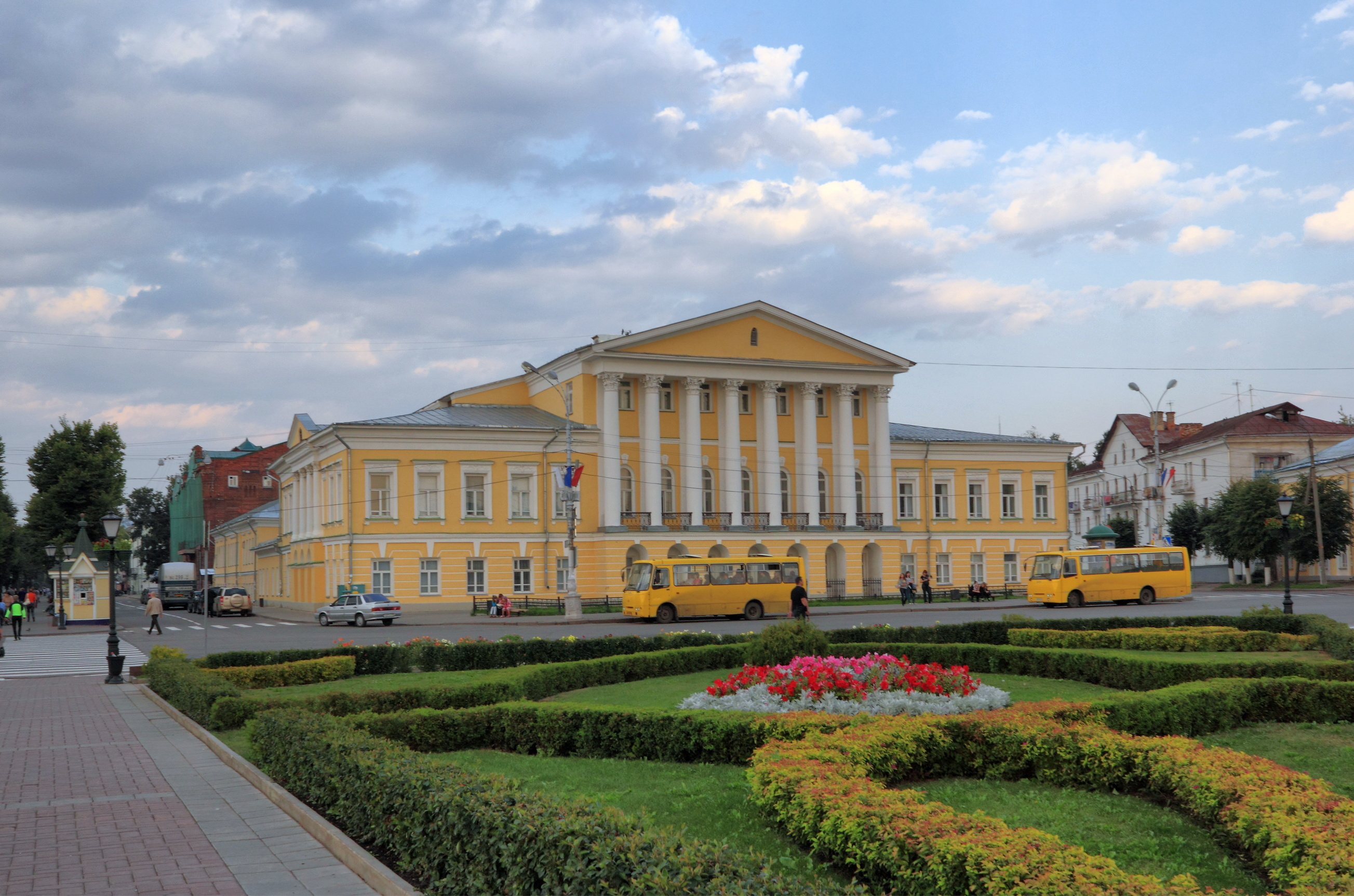 Kostroma. Former Borshchev House